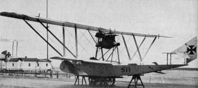 Flying boat Hansa-Brandenburg FB on wheel set.